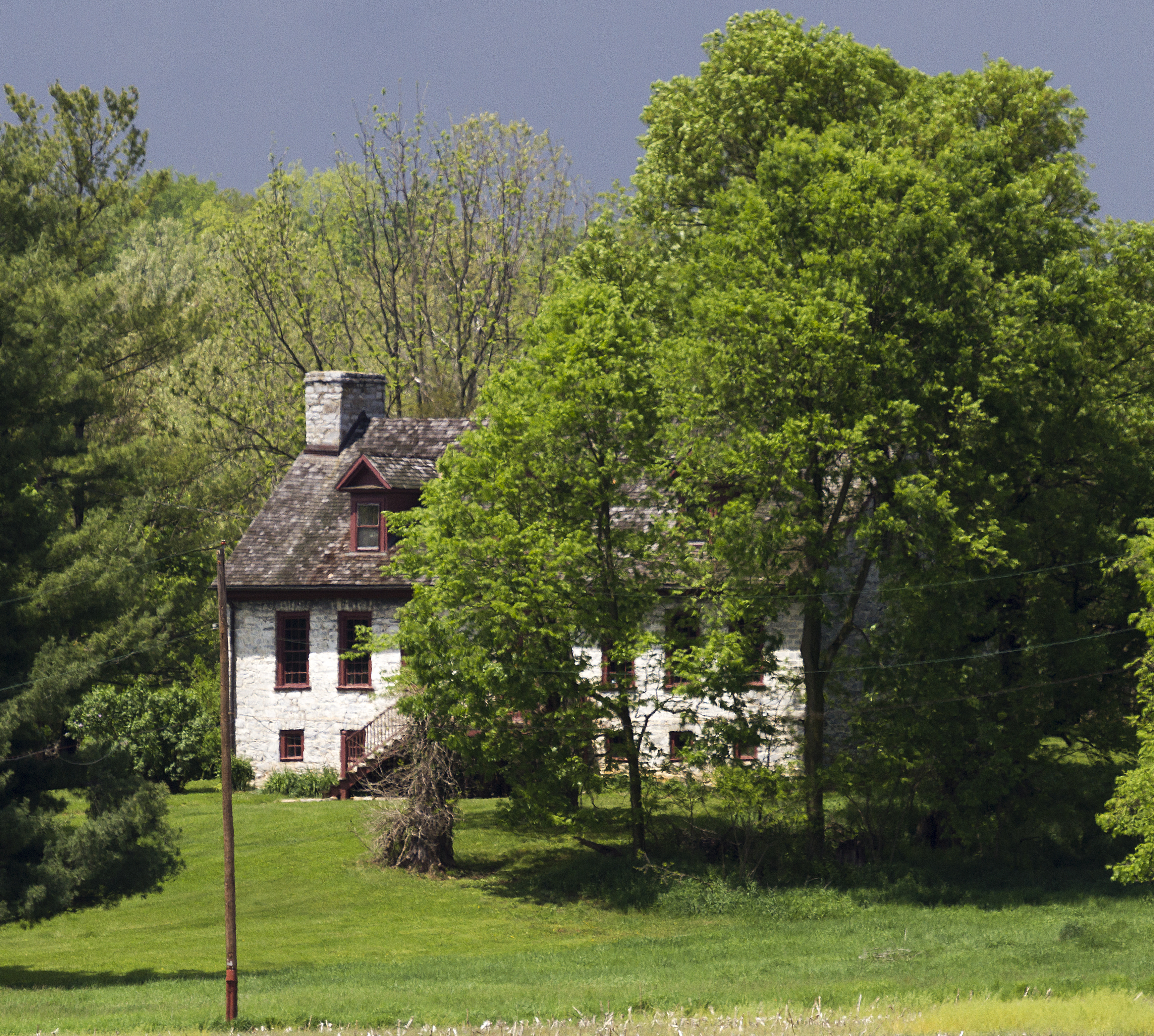 Traveler's Rest, Kearneysville, West Virginia, USA